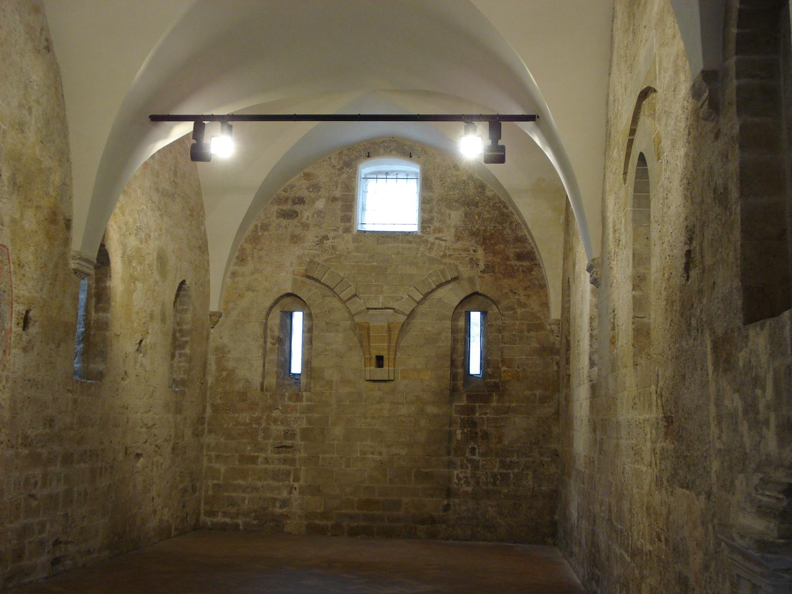 Refectory